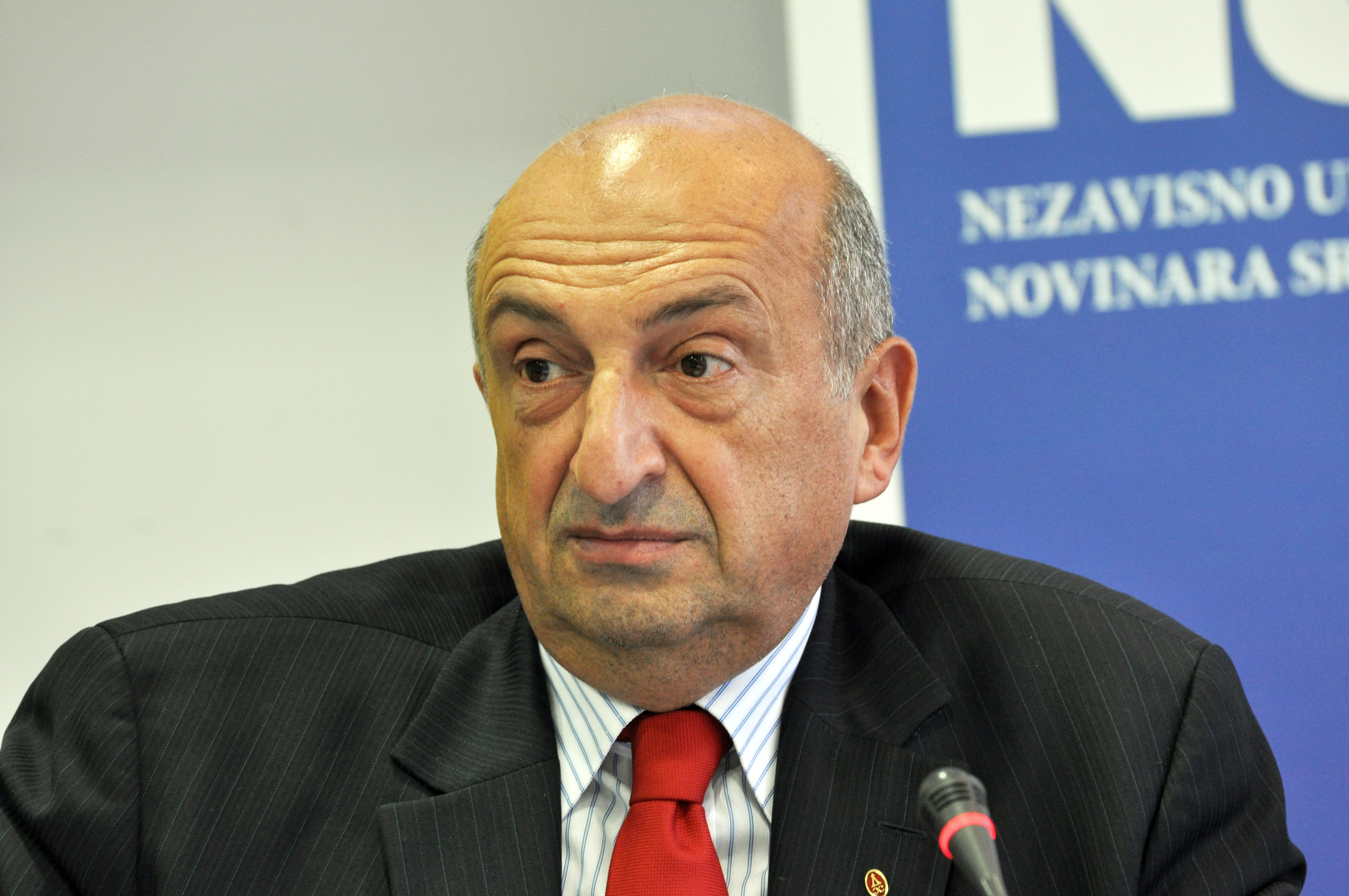 Vladan Batić